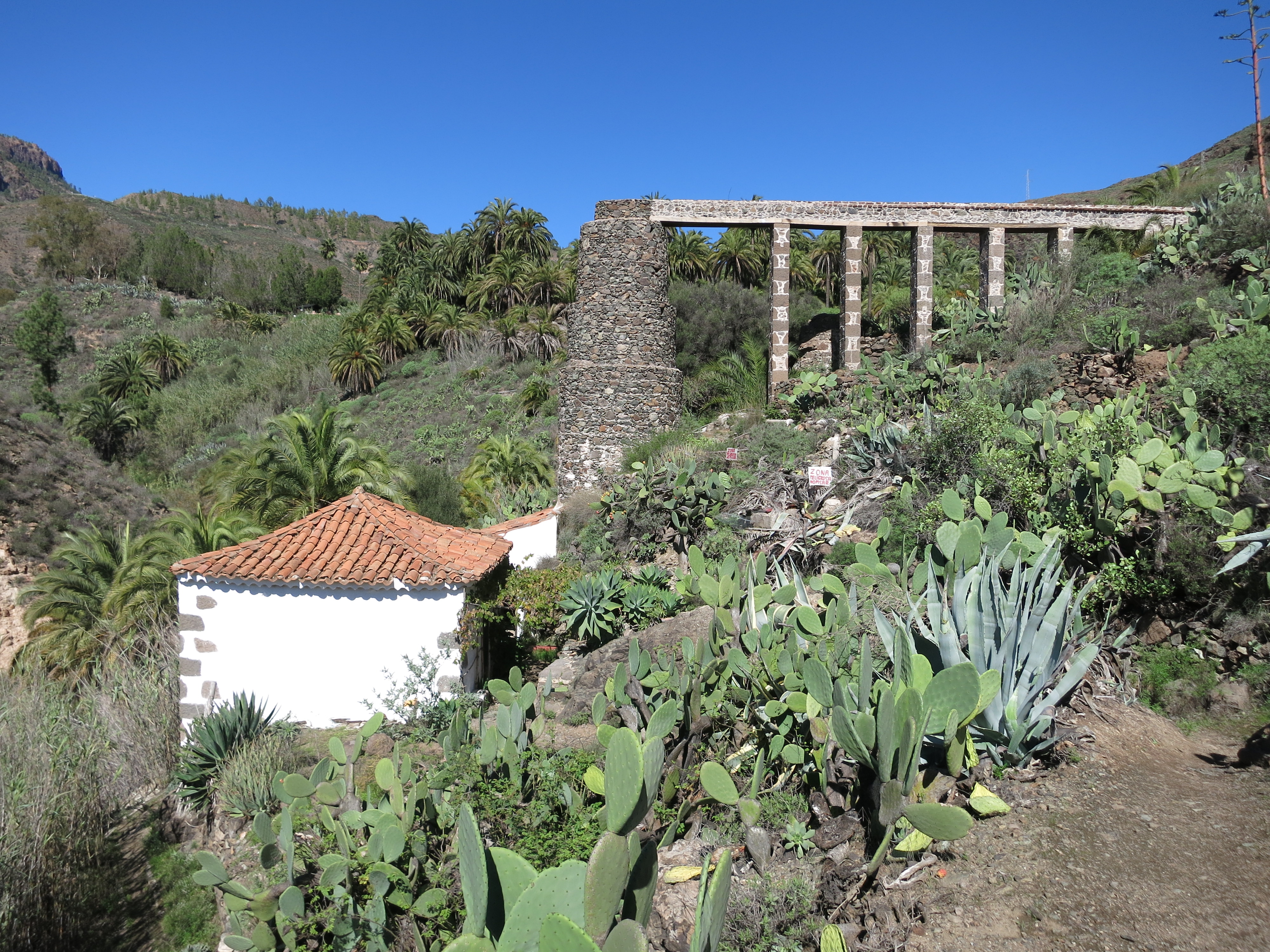 Molino de Cazorla